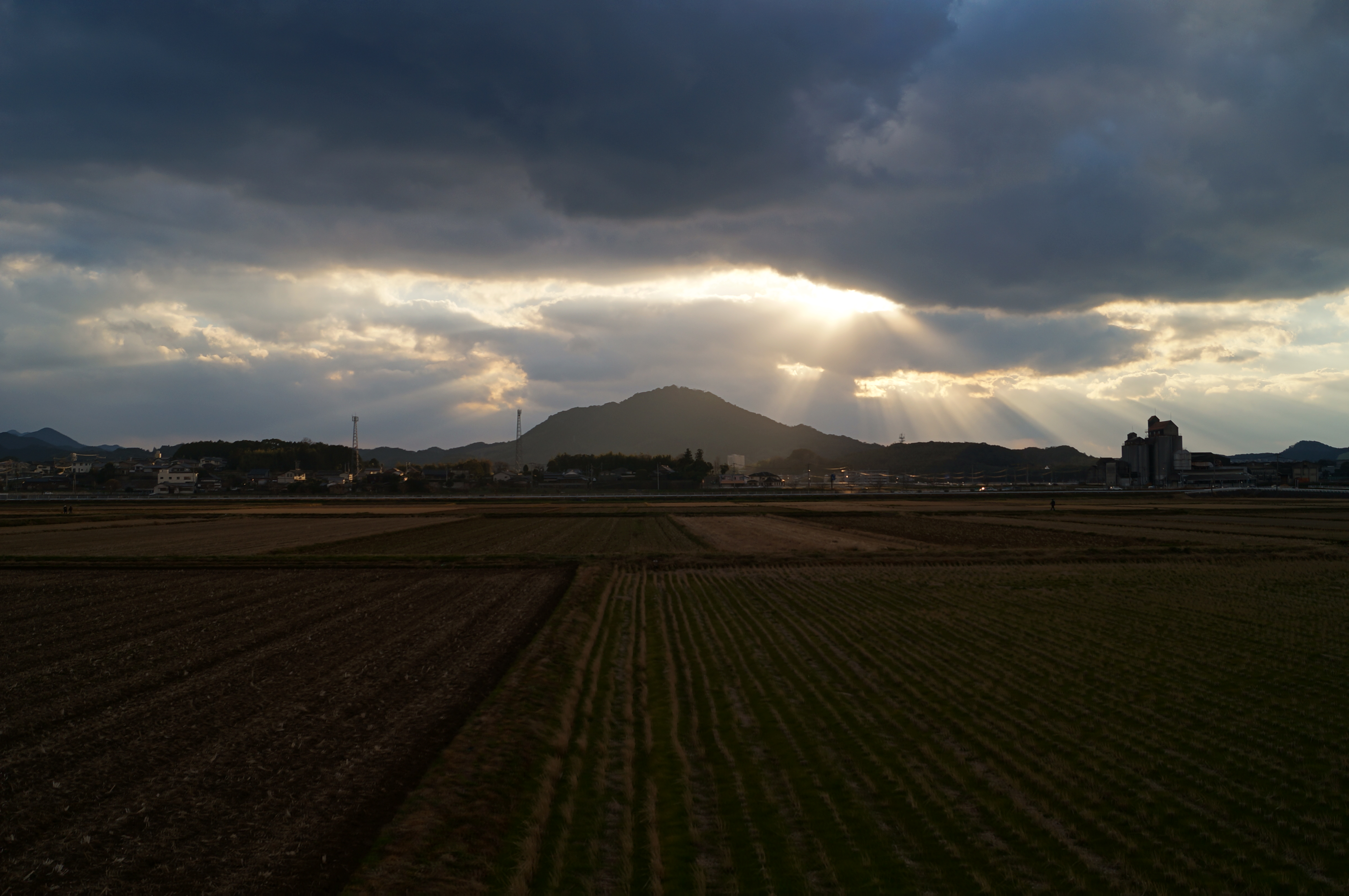 Konomiyama in Munakata, Fukuoka, Japan.